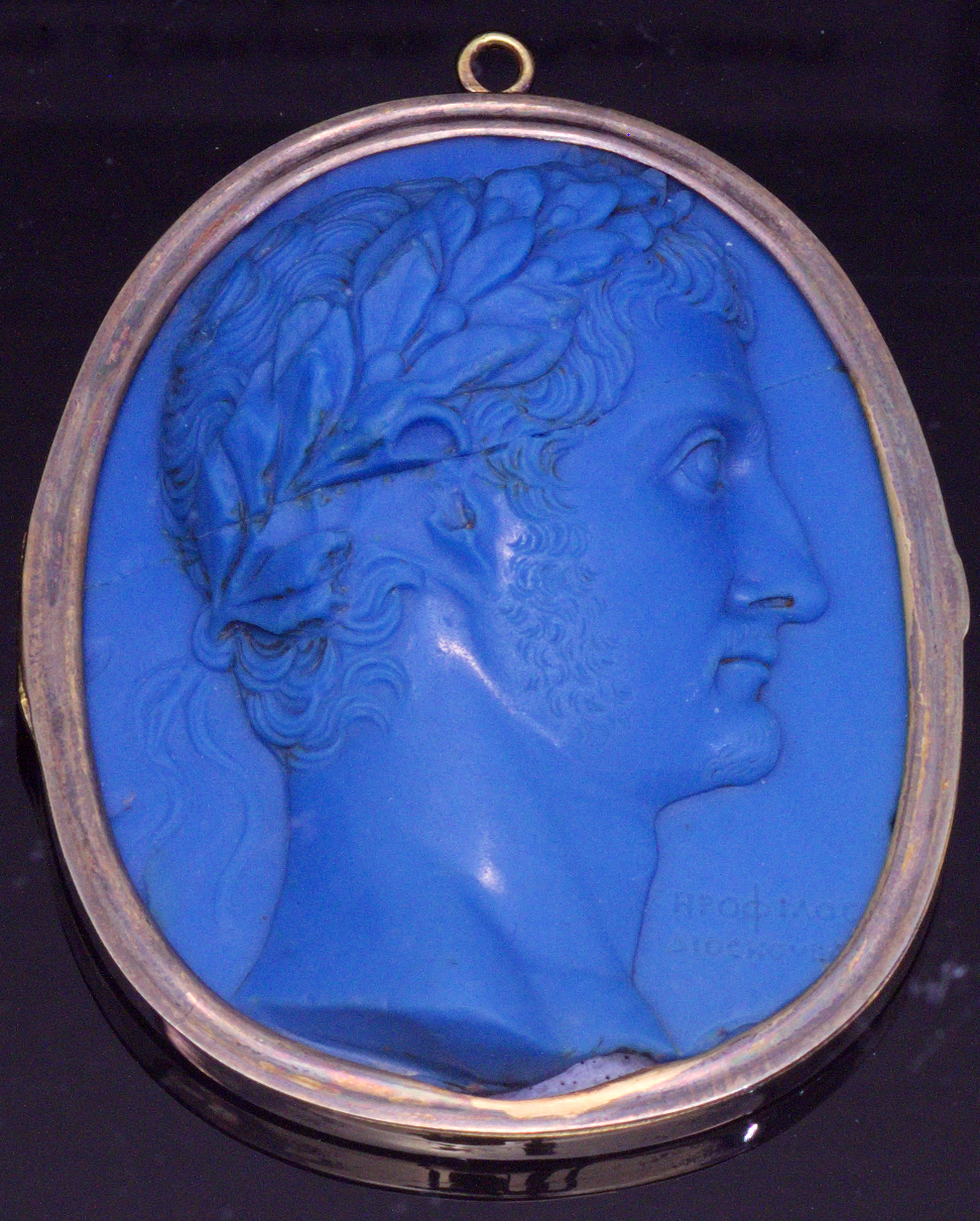 Cameo by Herophilos featuring Augustus (Vollenweider, 1966) or Drusus Maior (Zwierlein-Diehl, 1980) or Augustus (Furtwängler, 1900; Zazoff, 1983). Kunsthistorisches Museum in Vienna.